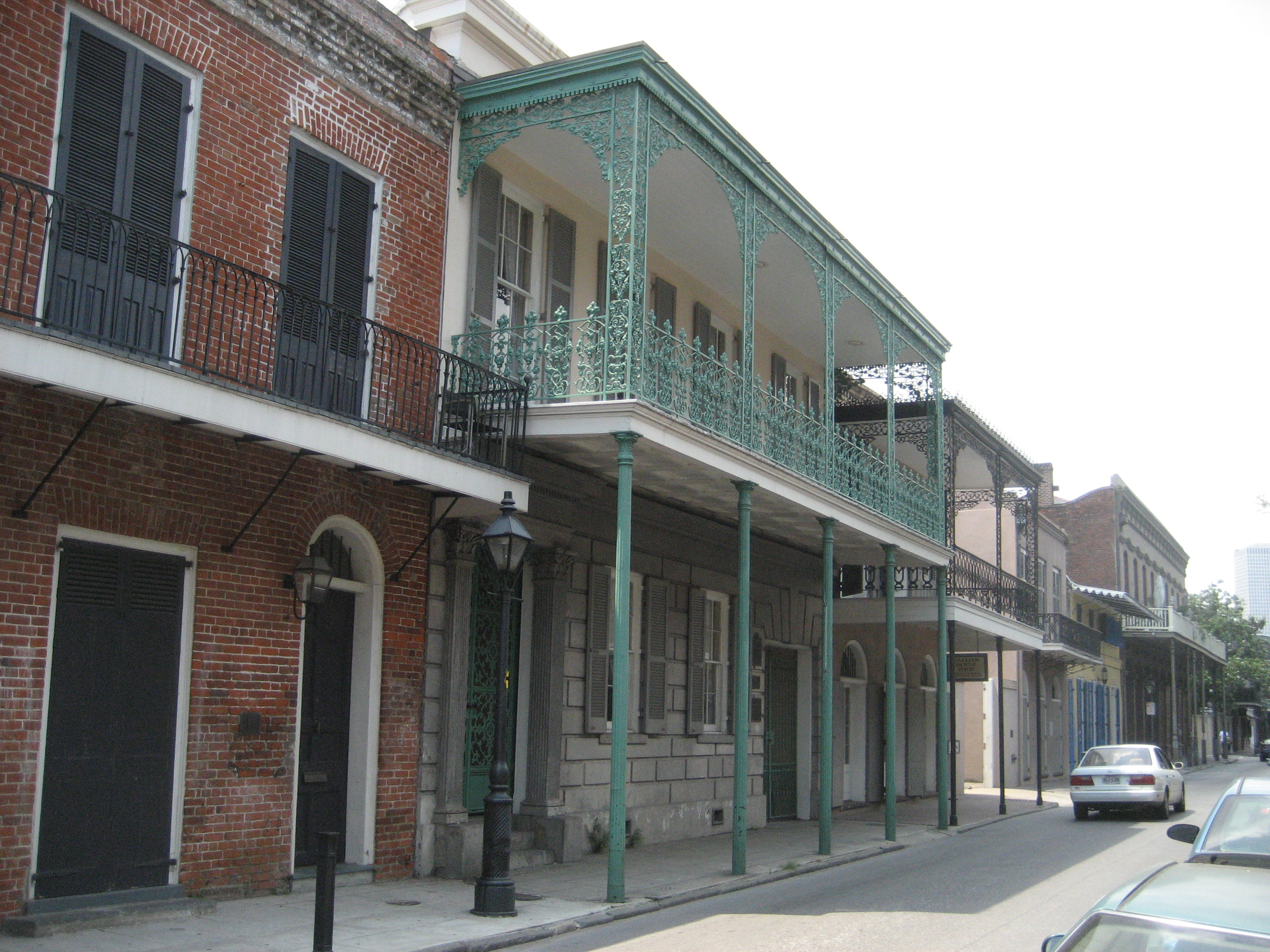 Gallier House (with green balcony), Royal Street, French Quarter, New Orleans.